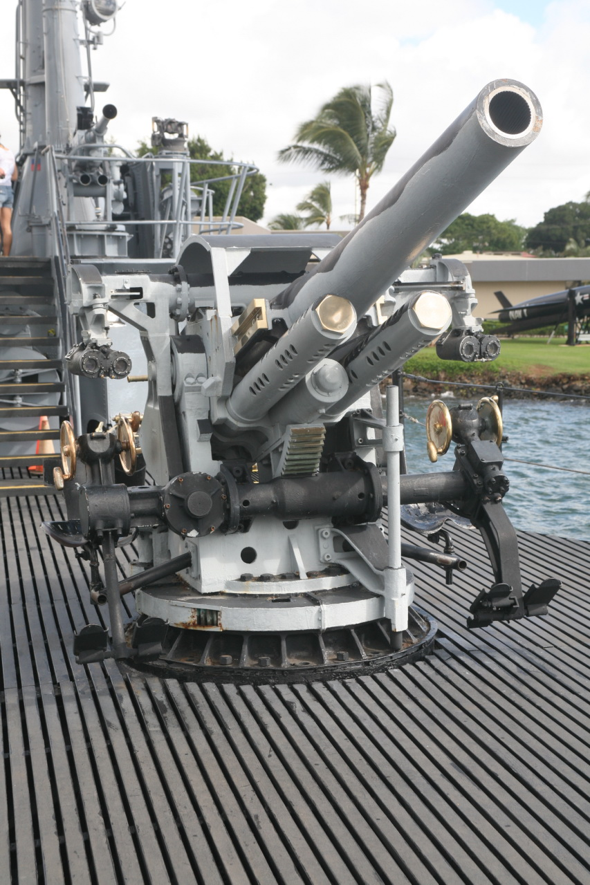 Muzzle view of 5 inch 25 caliber gun on the deck of submarine USS Bowfin (SS-287), in Pearl Harbor. See File:Breech view 5 inch 25 caliber gun USS Bowfin.jpg for breech view.